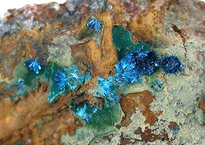 Clinoclase, Chalcophyllite Locality: Majuba Hill Mine (Mylar Mine), Antelope District, Pershing County, Nevada, USA (Locality at ) Size: 5.9 x 4.9 x 2.1 cm. On a weathered limonite matrix are a few drusy clusters of sparkling, deep teal blue clinoclase, to .2 cm across, a copper arsenate. Associated with the clinoclase are tabular, green crystals of chacophyllite, to .4 cm across, a copper aluminum arsenate. From the collection of James E. Moresby White. Ex. Carnegie Museum Collection.